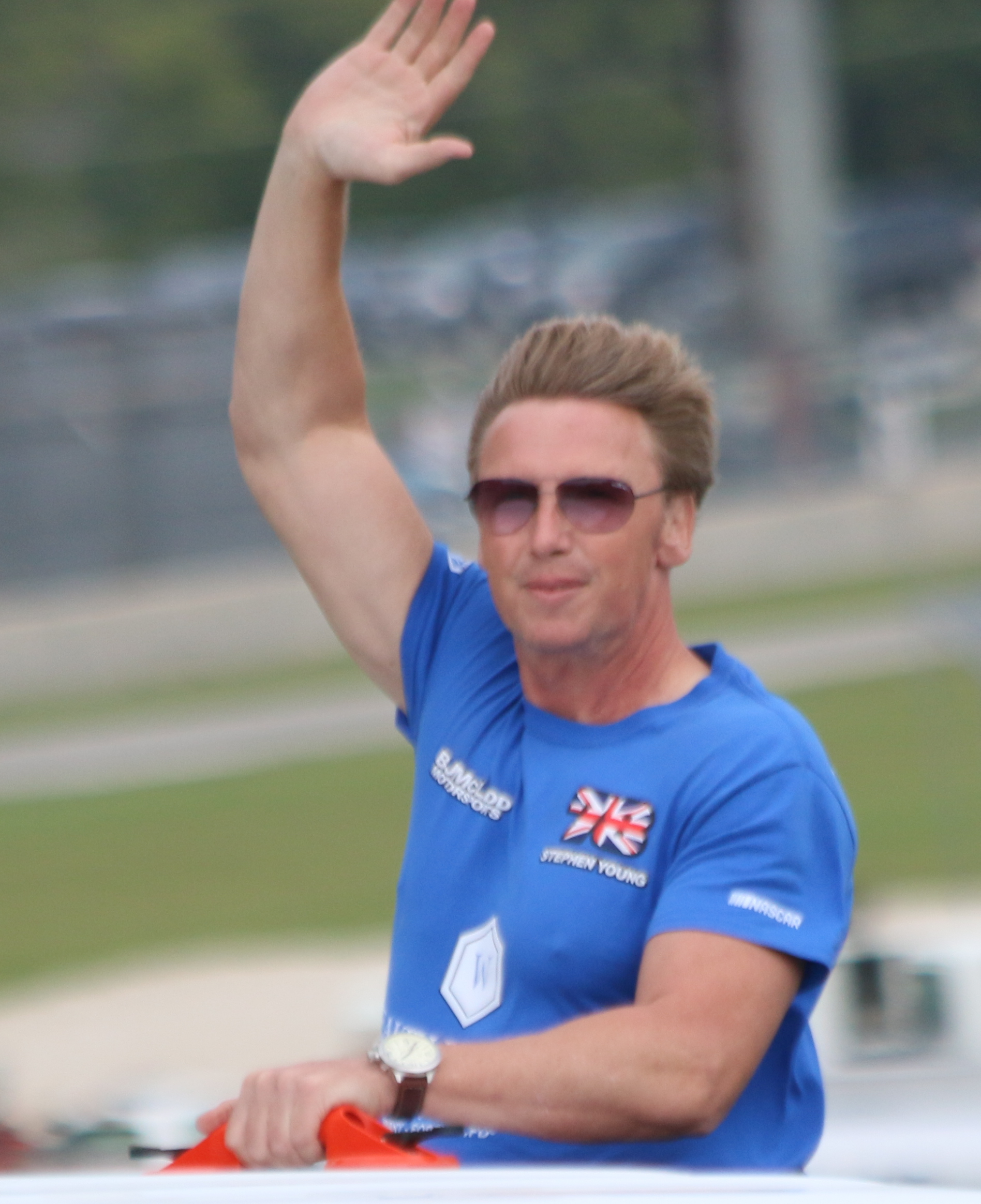 NASCAR driver Stephen Young during the driver's introductions lap at the 2017 Johnsonville 180 race in the Xfinity Series race at Road America.